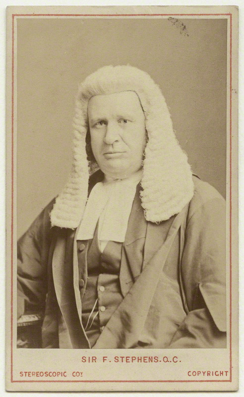 Sir James Fitzjames Stephen, by London Stereoscopic & Photographic Company, Albumen Carte-de-visite, 1870s.